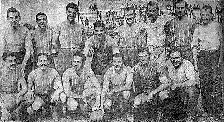 Club A. Colegiales in 1947. That team won the Primera Amateur (currently Primera C) championship.